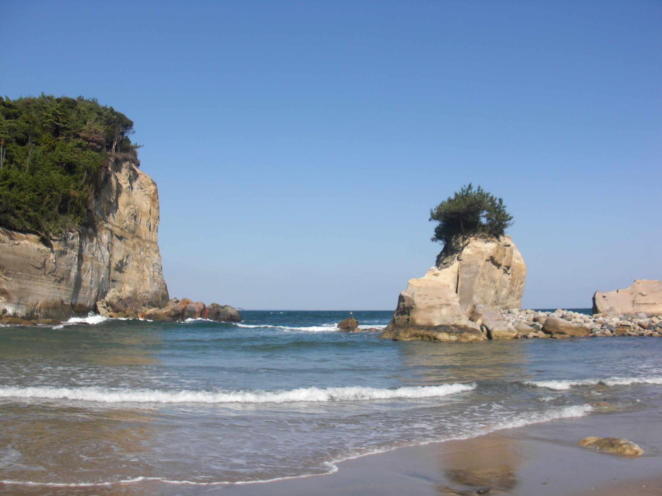 This is a landscape of Takado coast in Takahagi, Ibaraki, Japan.